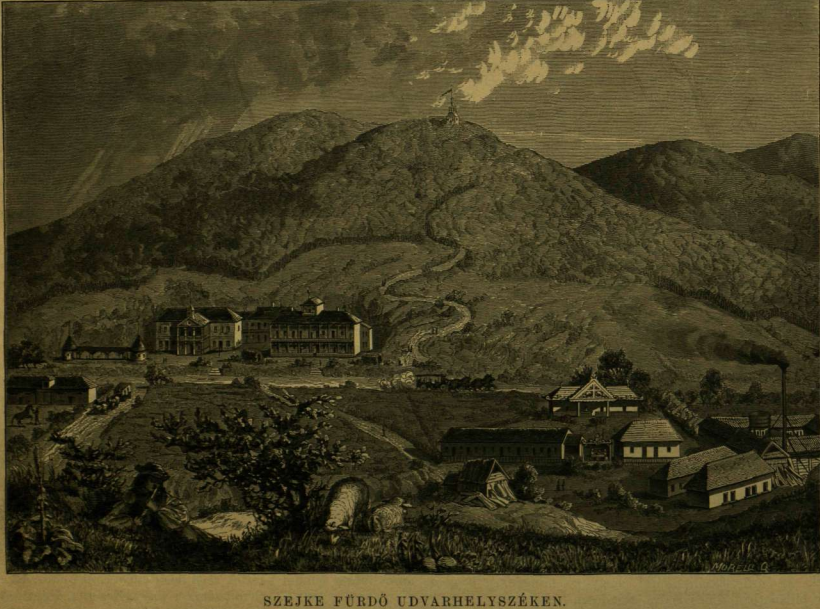 Public baths, Szejkefürdő